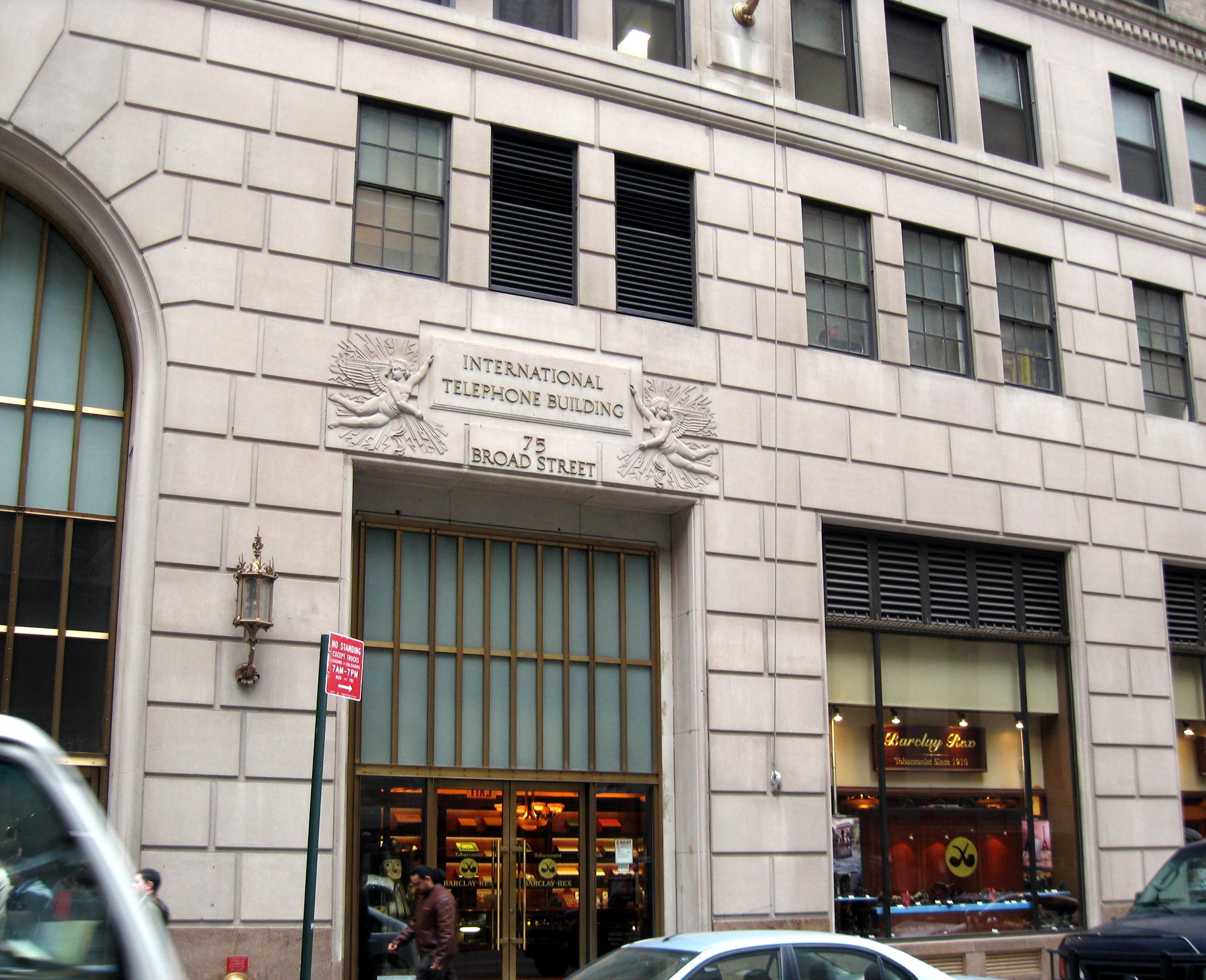 Looking east from head of Marketfield Street at ITT Corporation former HQ at 75 Broad Street Manhattan. See File:75 Broad SW door jeh.JPG for southwestern door.